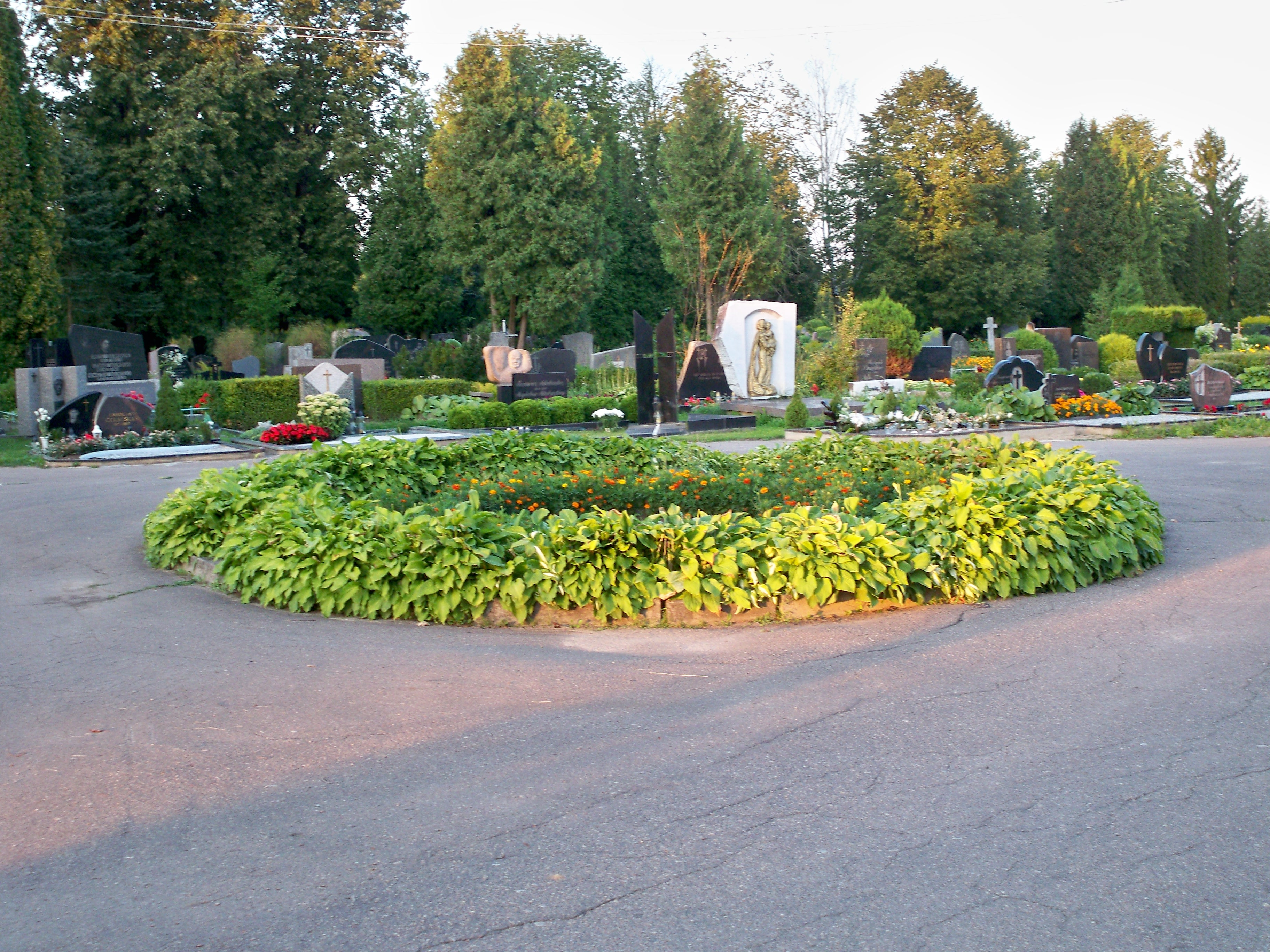 Seniava cemetery.